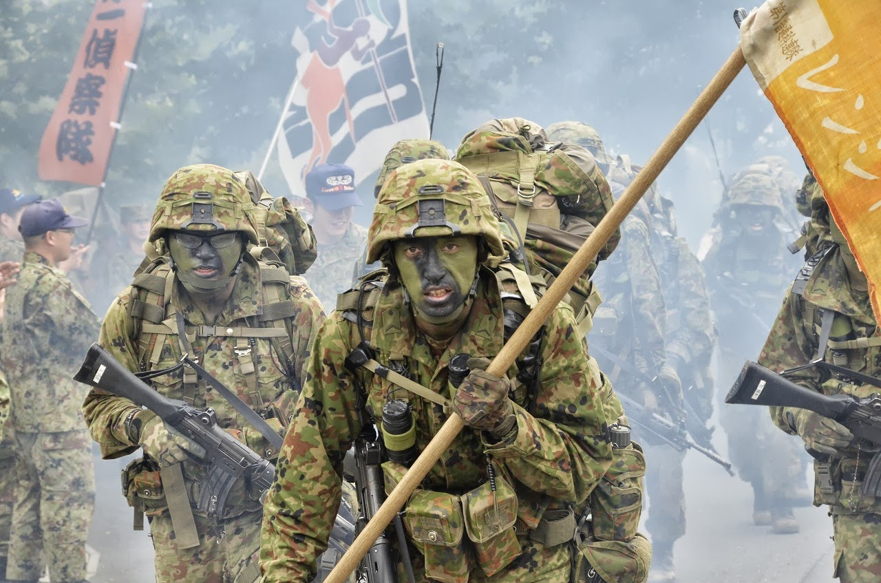 Title レンジャー旗手の力強い視線.jpg Album 教育訓練等 レンジャー教育 帰還式（第１普通科連隊・練馬）